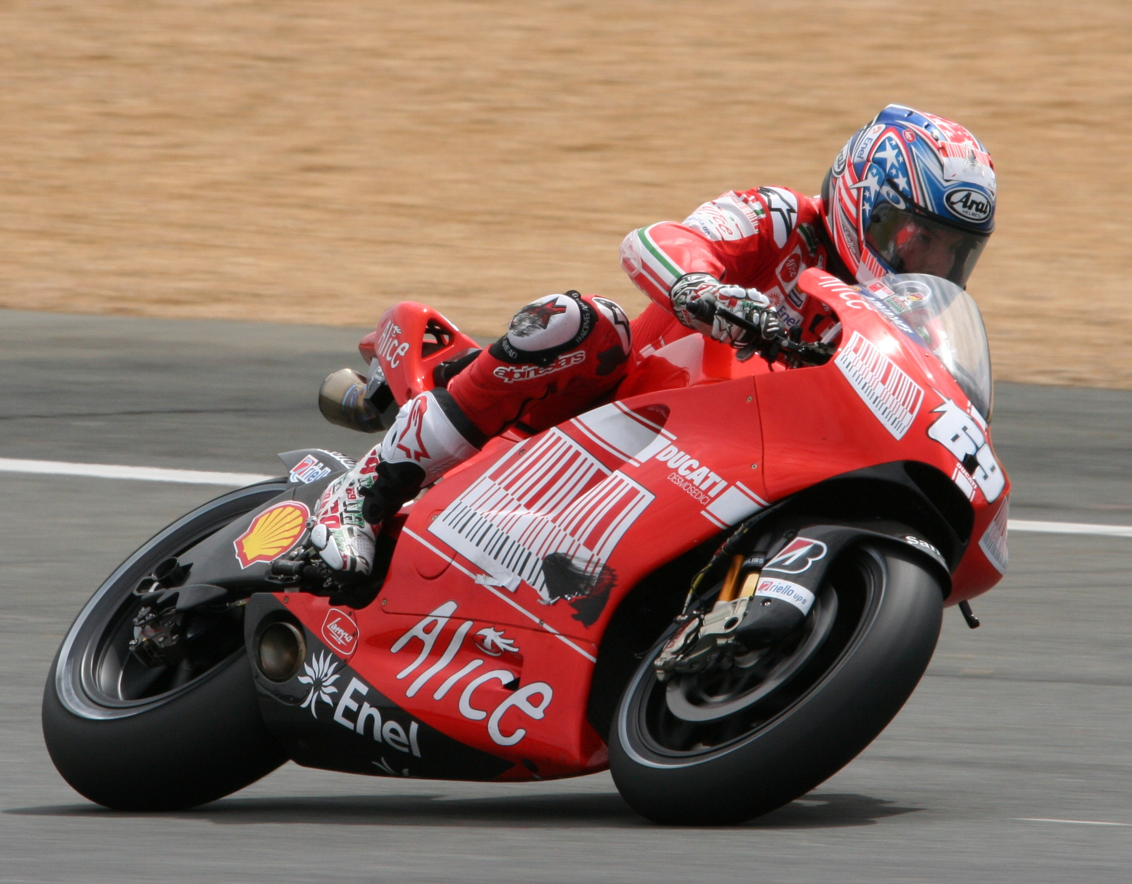 Nicky Hayden / MotoGP / Le Mans 2009